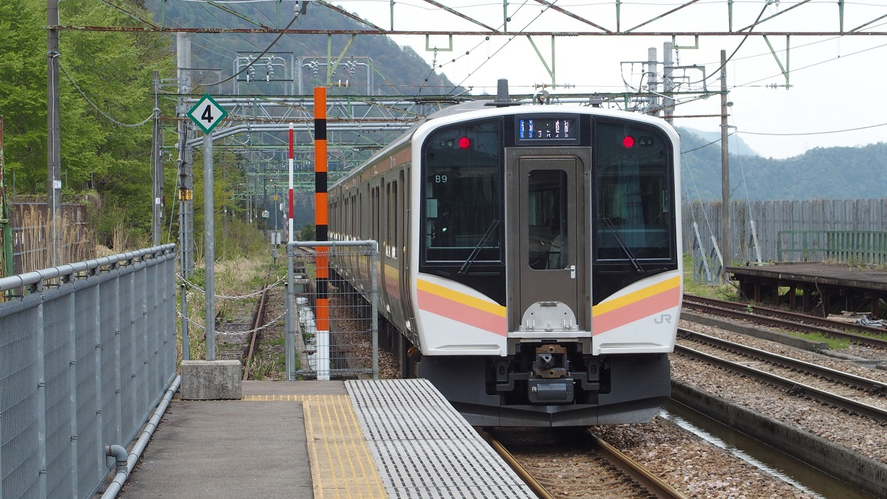 Tsuchitaru Station